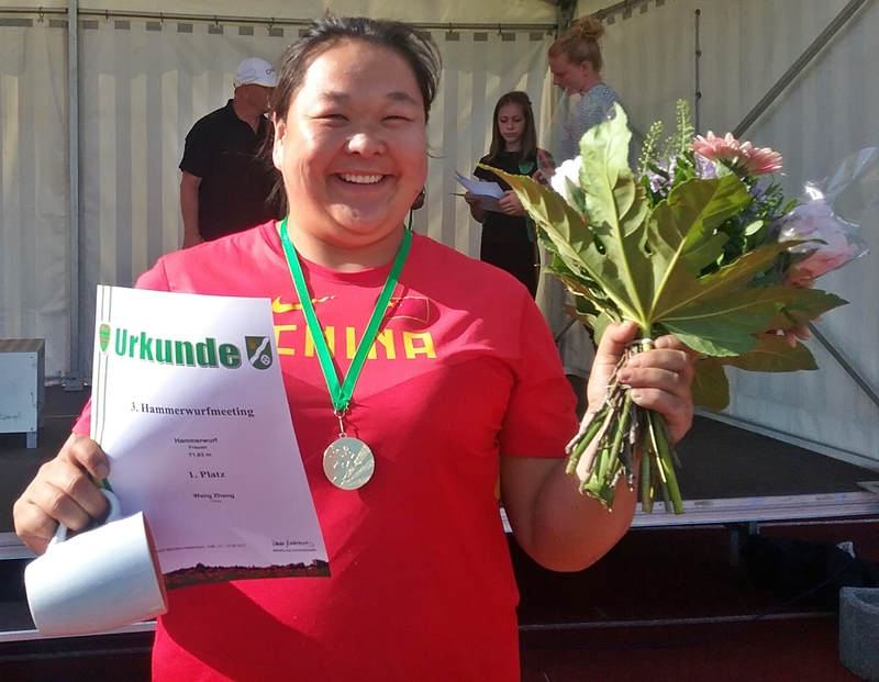 Wang Zheng at the 3rd Hammerwurfmeeting in Berlin-Marzahn